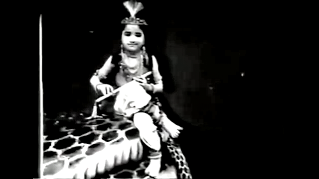 Still from the movie Shree Krishna Janma, 1918.